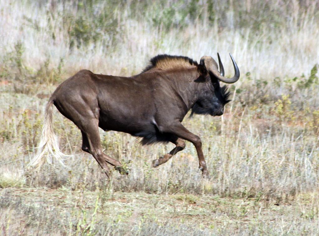 Photo taken at Kliprivier Nature Reserve, Johannesburg